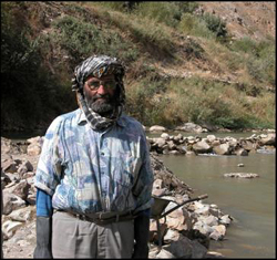 Ghorband River worker.